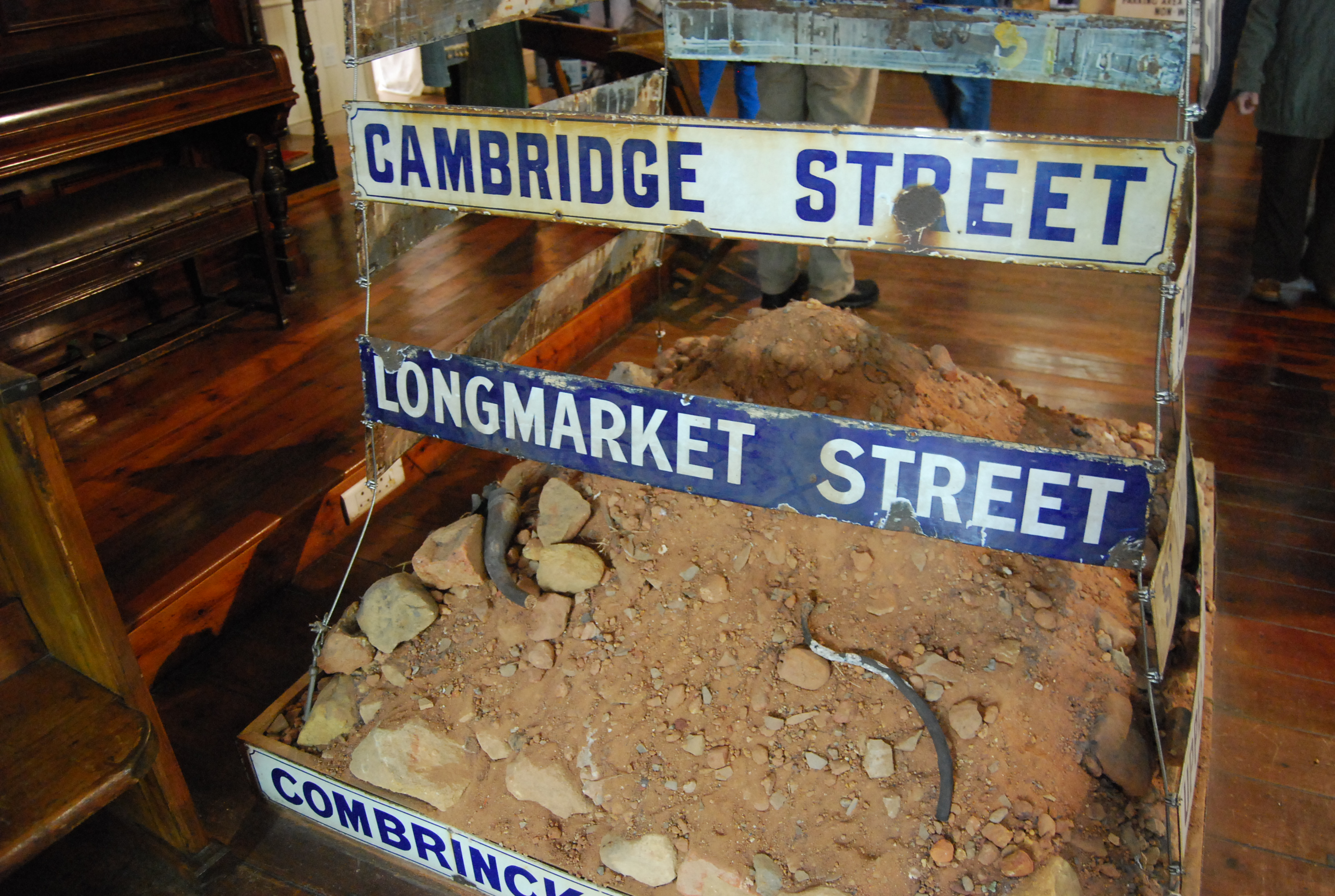 Captured at District Six Museum, Cape Town.